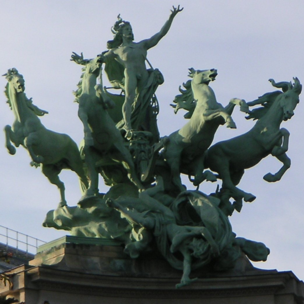 Harmony Triumphing over Discord, quadriga by Georges Récipon, Grand Palais, Paris